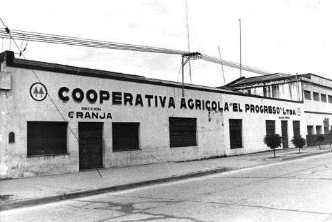 Front of the " Sociedad Cooperativa de Seguros Agrícolas y Anexos Limitada El Progreso Agrícola"